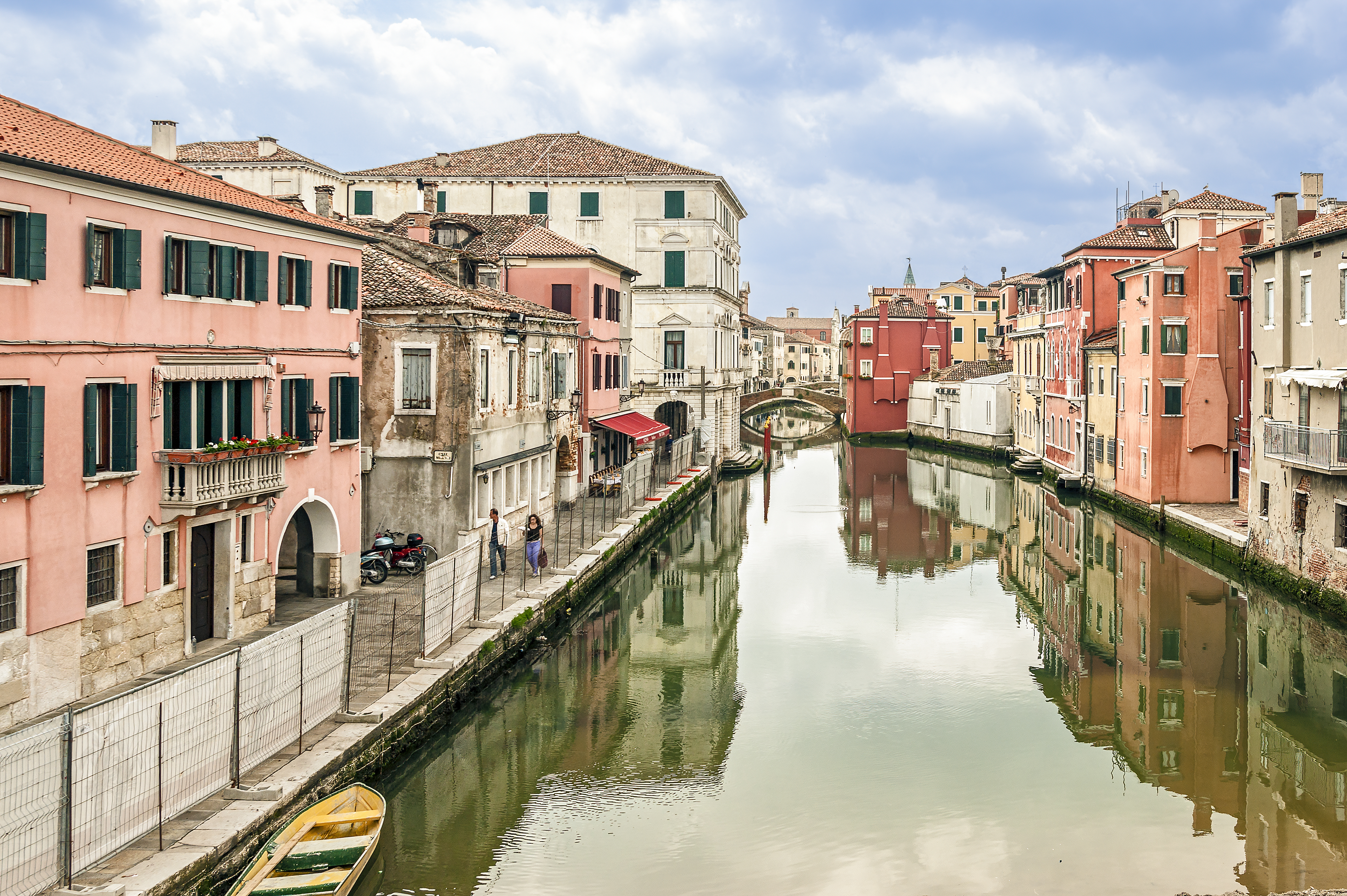 Canal Vena to Chioggia view from Vigo Bridge.